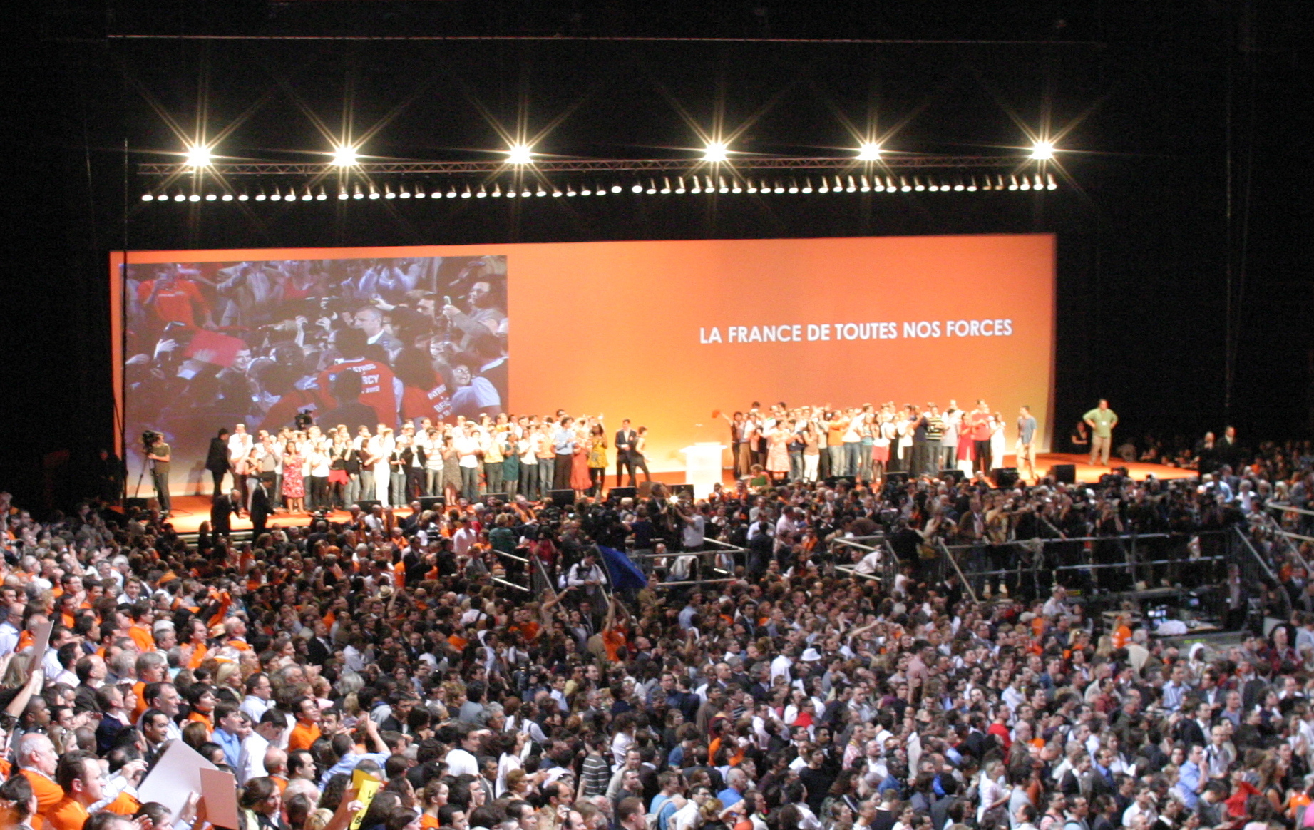 François Bayrou political meeting at Bercy on the 18th of April 2007 for the French presidential election. Copyright © 2007 Med